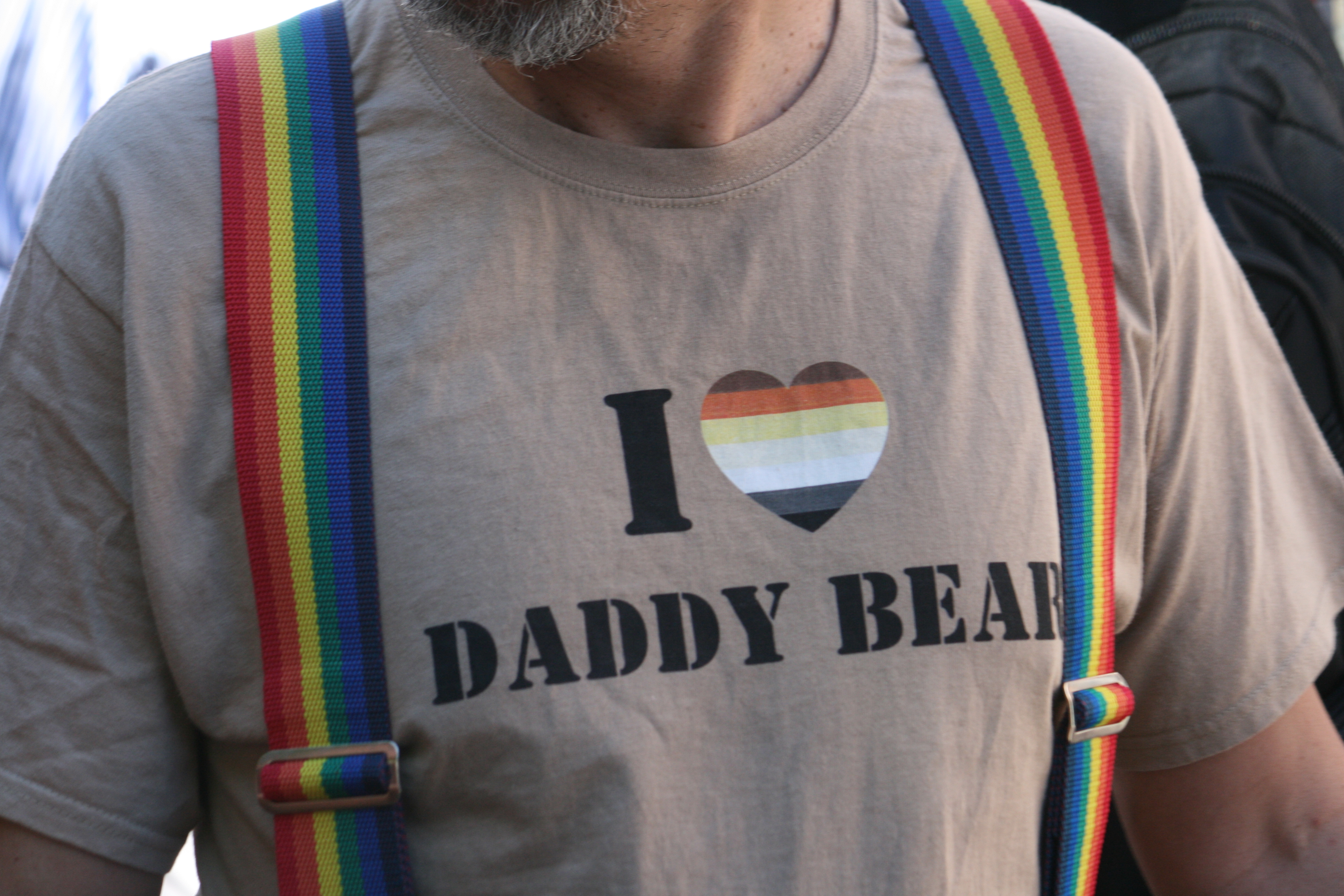 Fra Oslo Pride-paraden 2015 "I love daddy bear"